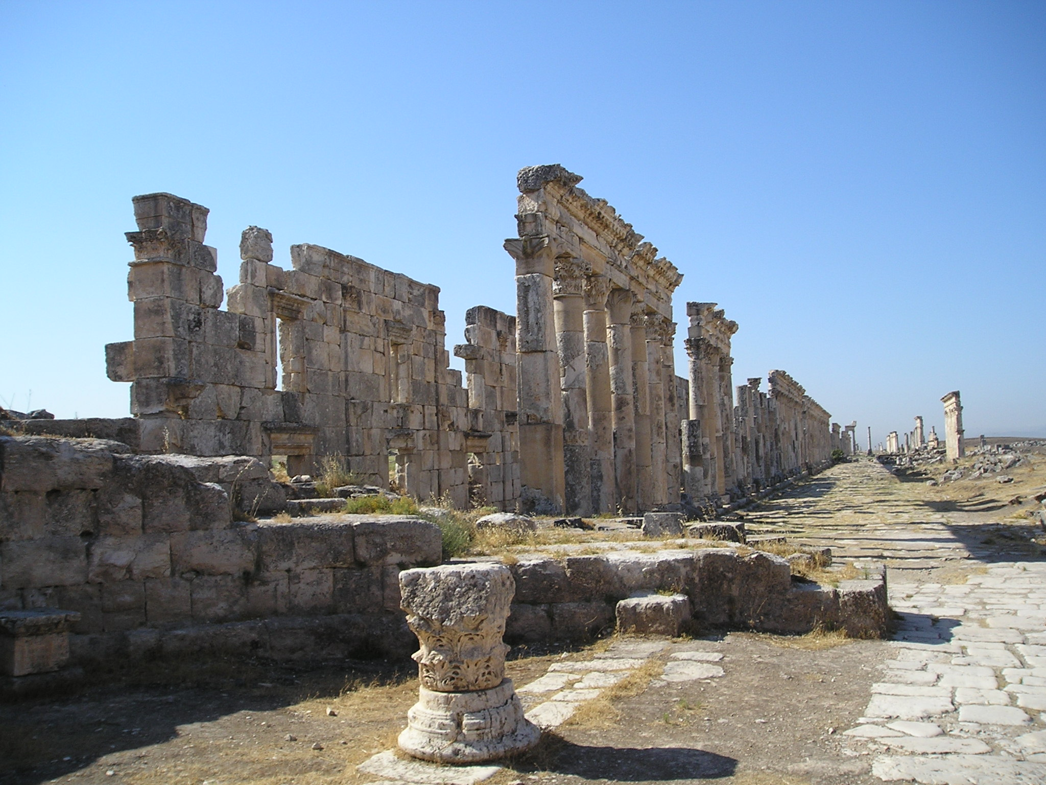 Apamea, Syria - a votive column at the Cardo